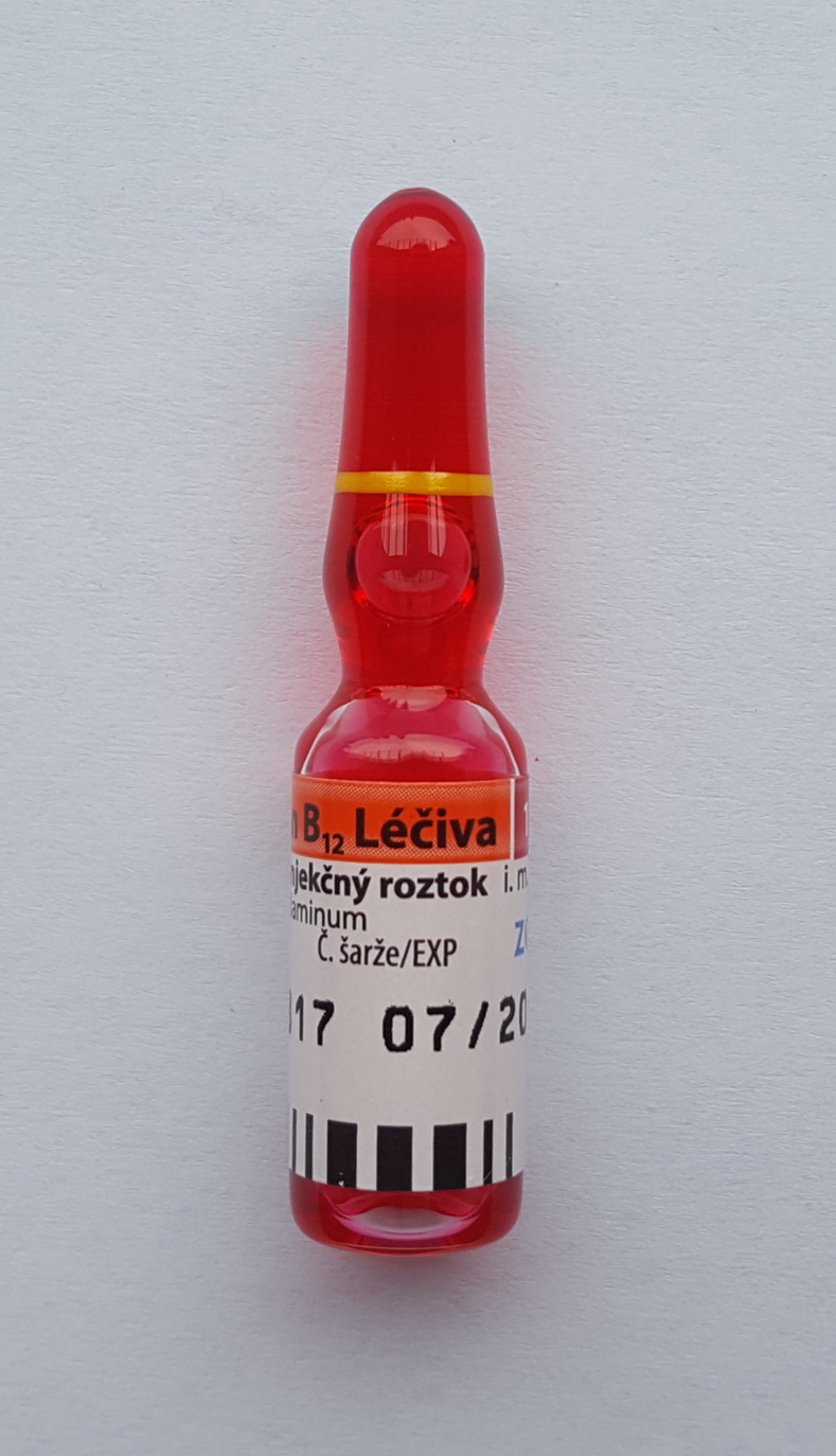 Vitamin B12/Cobalamin 1000mcg vial